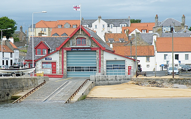 Anstruther Lifeboat Station, Data from Geograph: Description: Taken from the deck of the May Princess on the way out of the harbour. The boathouse has been altered and extended several times, most recently in 1995, to provide suitable facilities for changing demands on the lifeboat service. ICBM: 56.221112612543, -2.6967717132571 Location: (about 1 km from) near to Anstruther Easter, Fife, Great Britain.